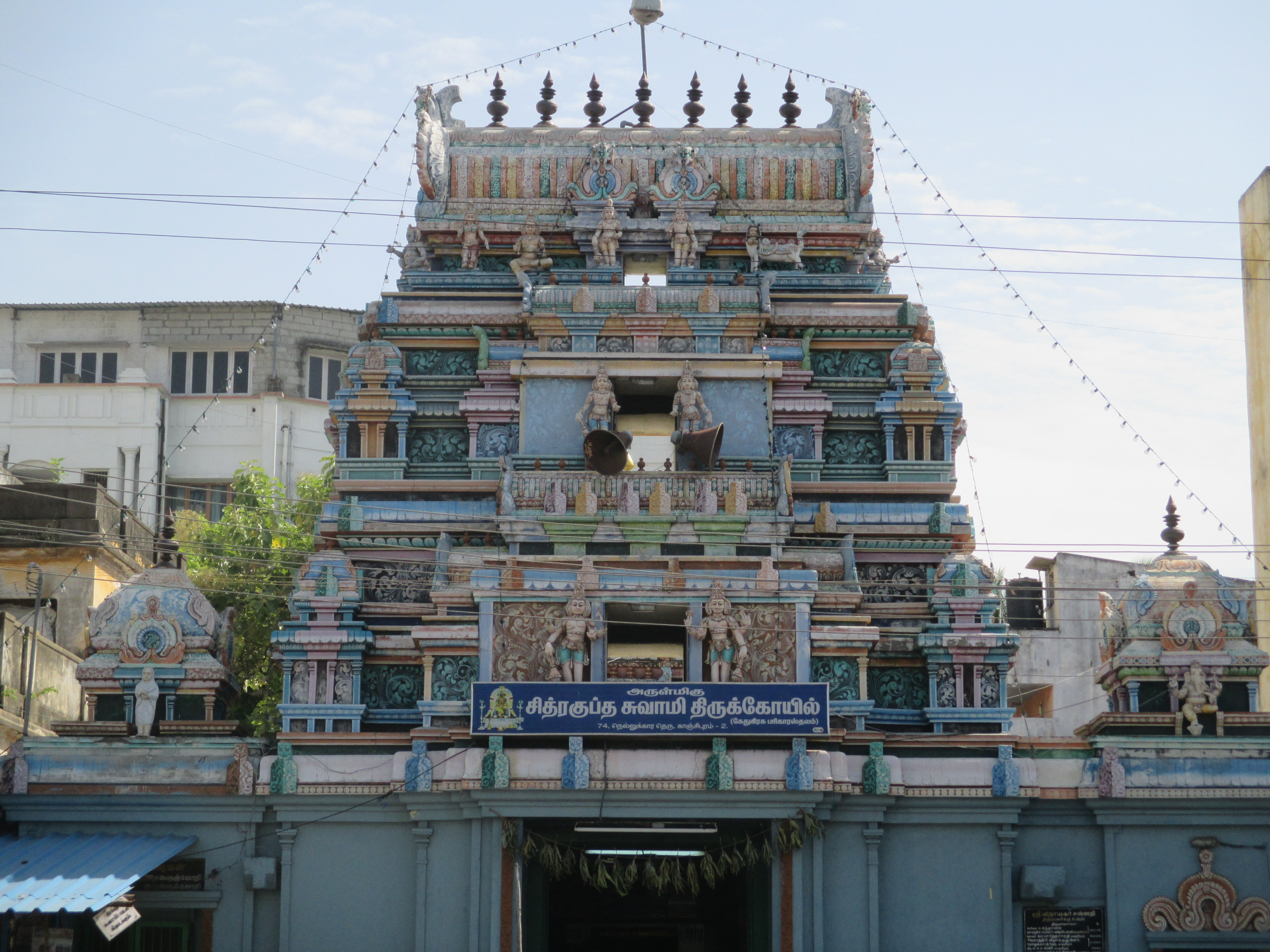 Chitraguptaswamy temple